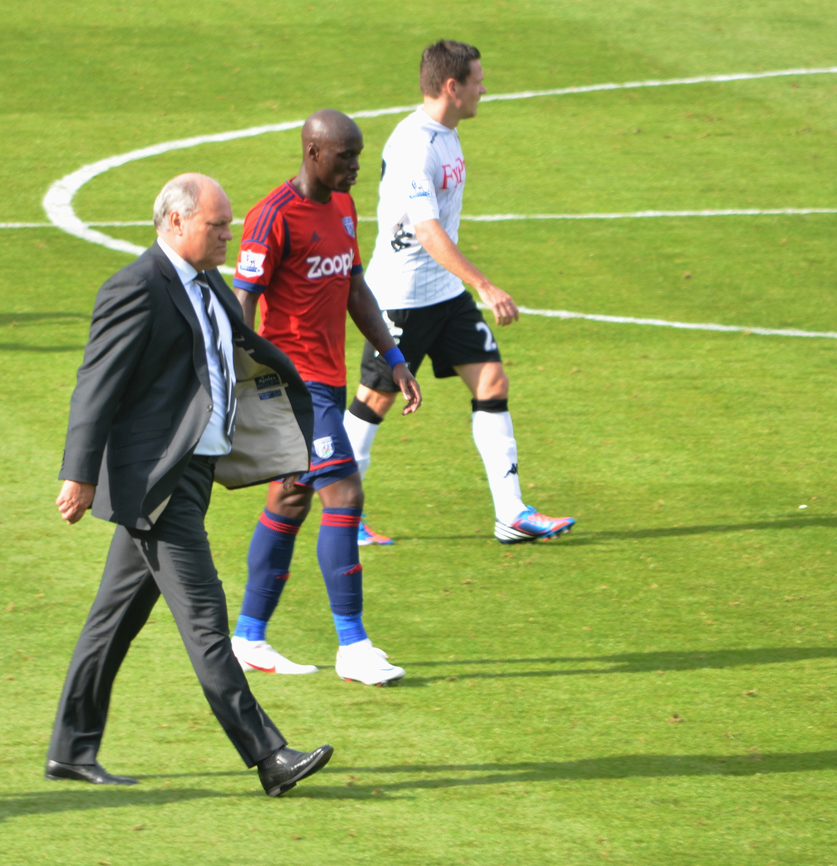 Martin Jol with Fulham